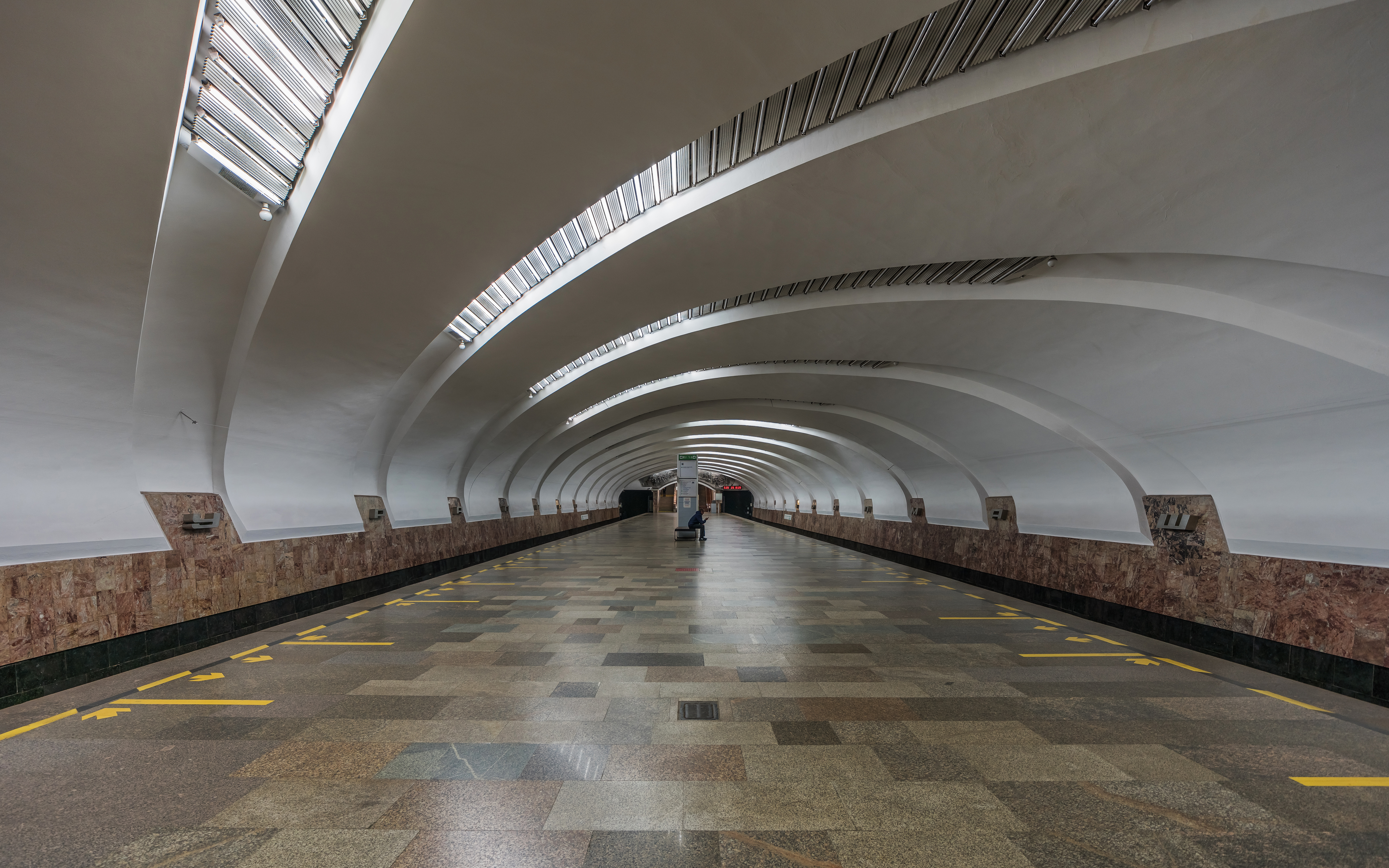 Uralmash metro station in Ekaterinburg, Russia